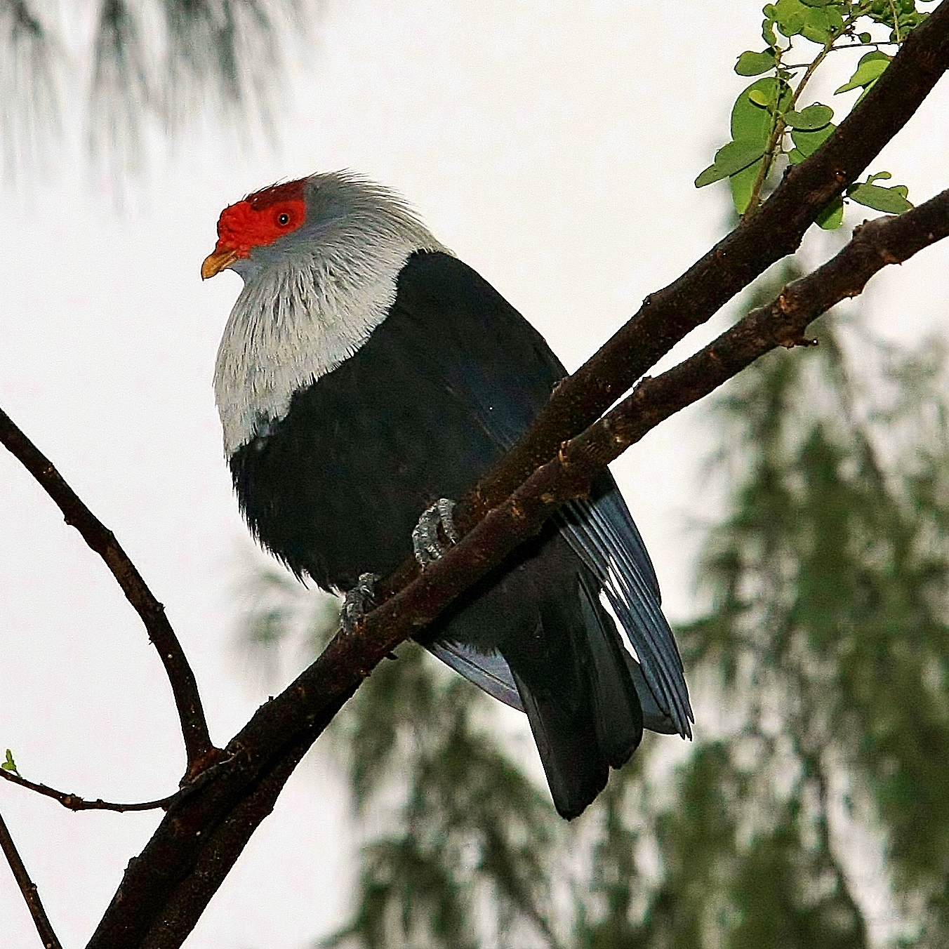 A Seychelles Blue Pigeon on Denis Island, Seychelles.